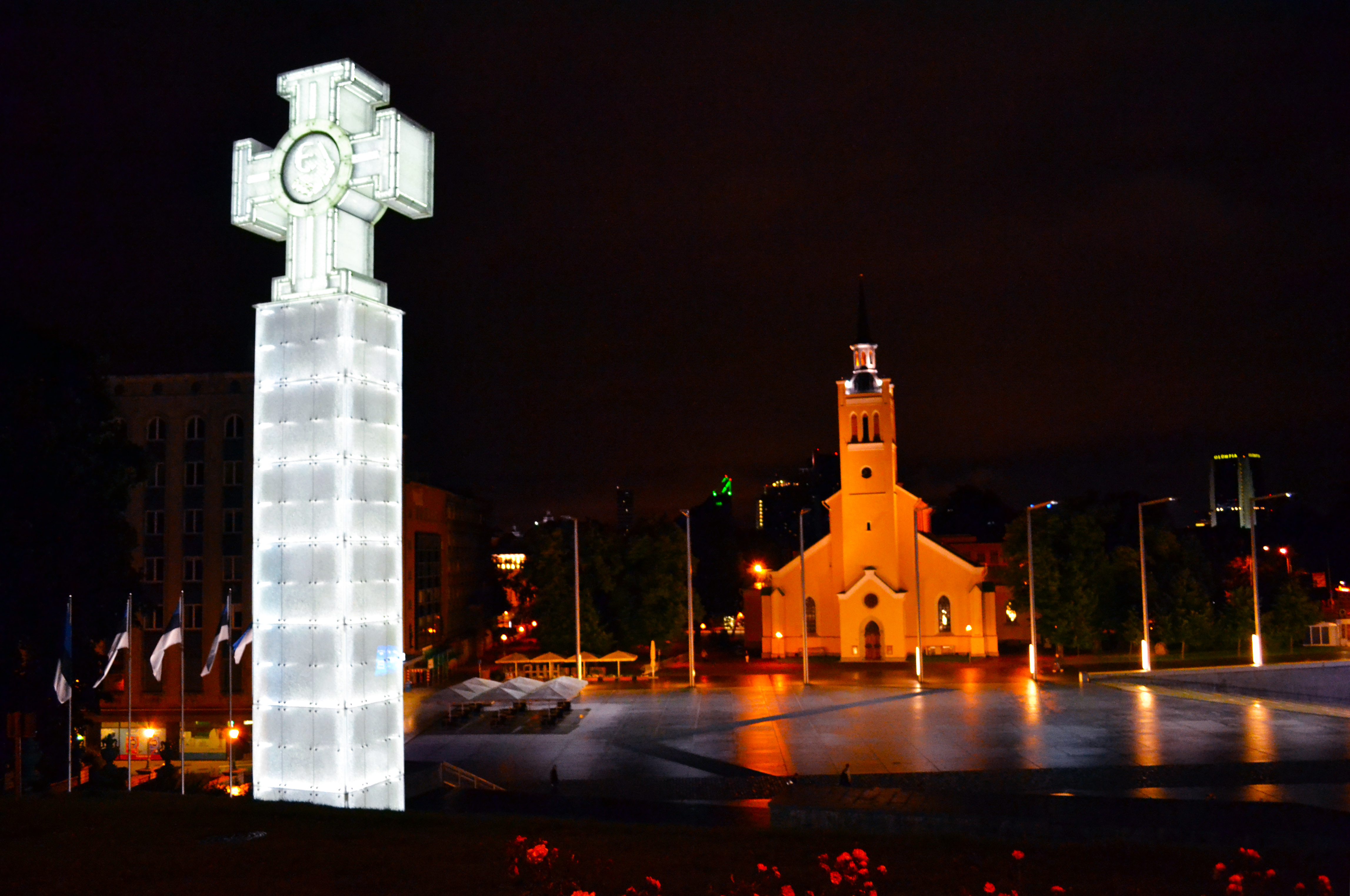 Independence War Victory Column St. John's Church, TallinnEesti: Vabadussõja võidusammas Tallinna Jaani kirik